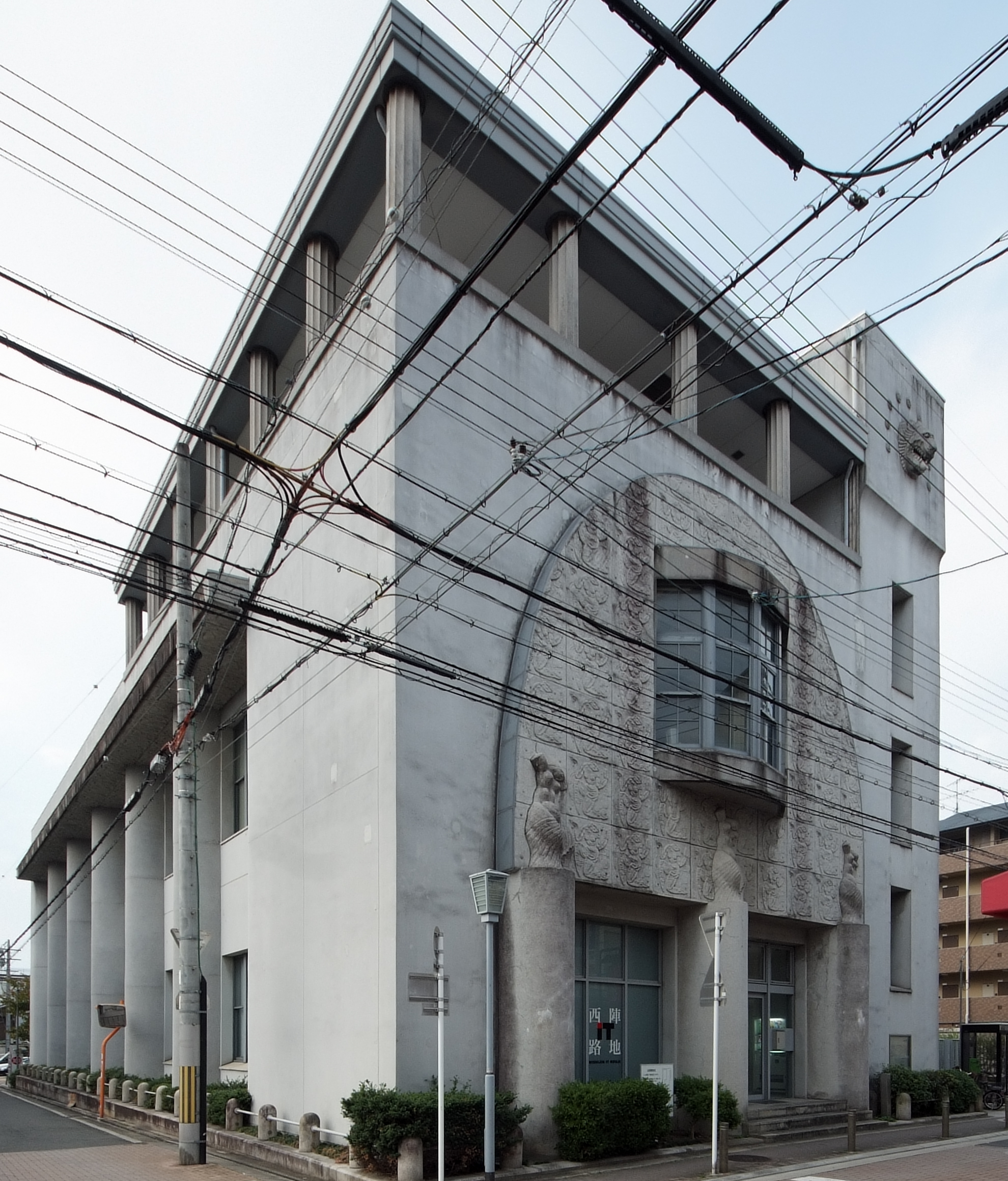 Former Nishijin Telephone Office, Kamigyo-ku Kyoto Japan, designed by Roku Iwamoto in 1921.